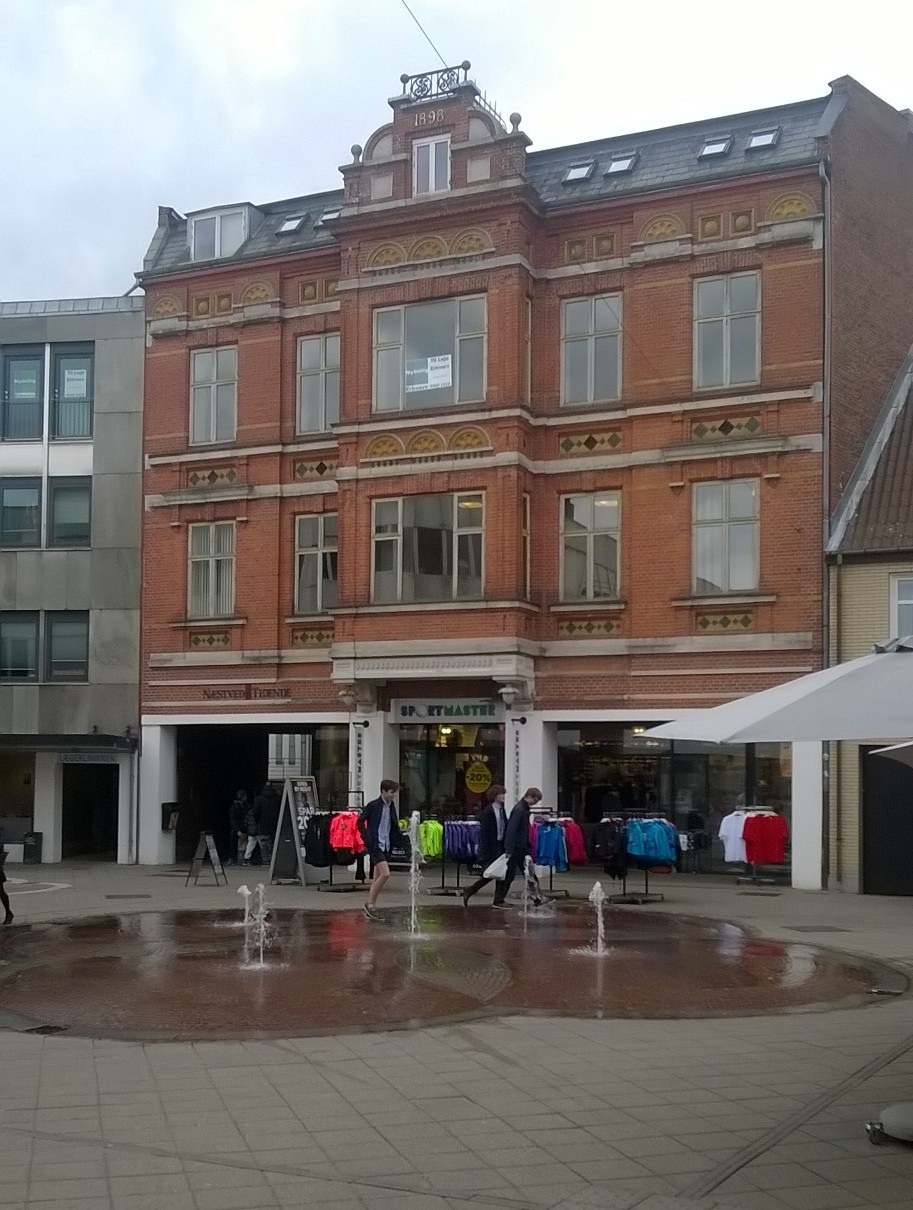 Fountain in Næstved where Ringstedgade and Grønnegade meets.